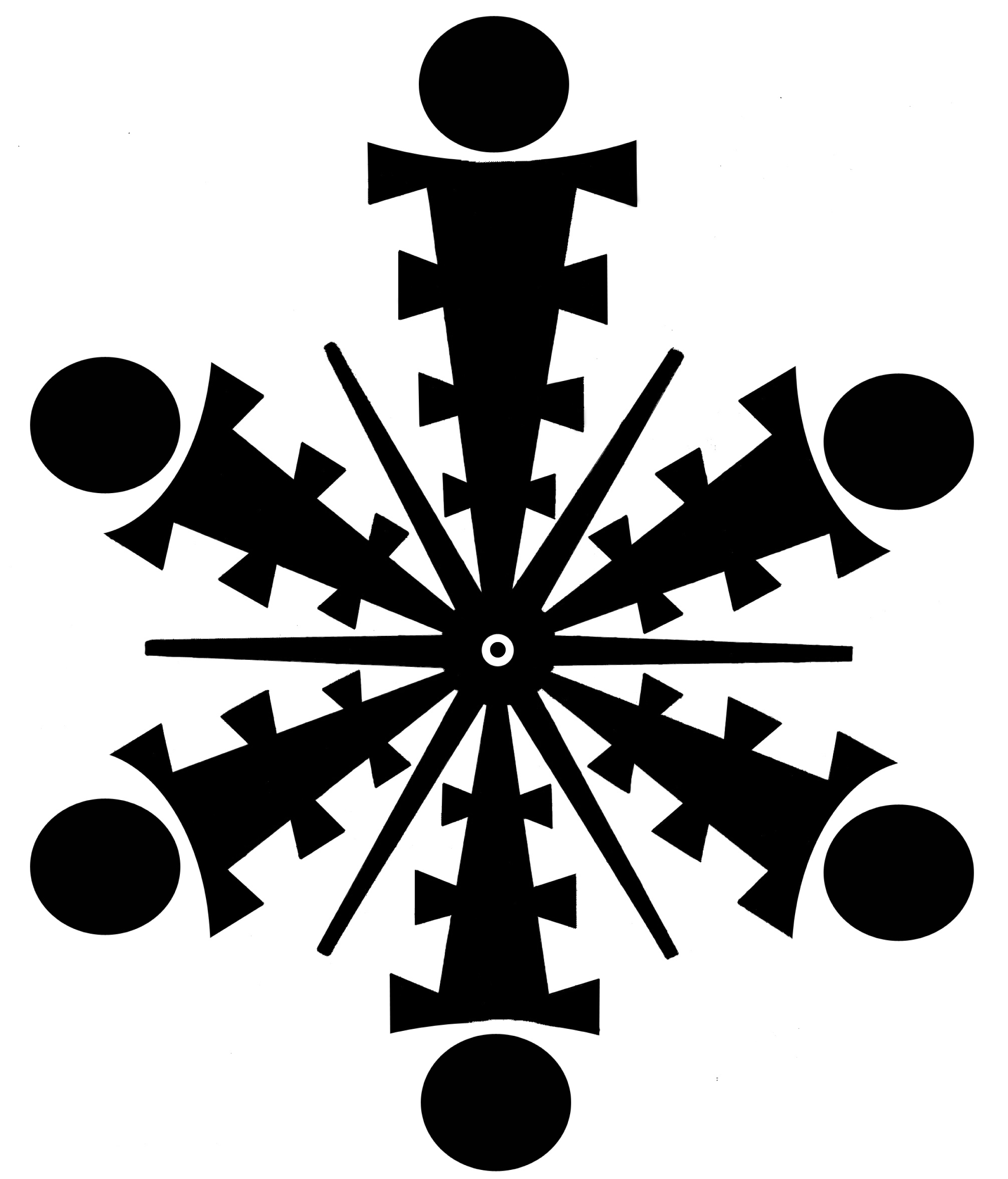 This is the eye chart that has been used by Tibetan Lama Monks for many years to improve eye sight.